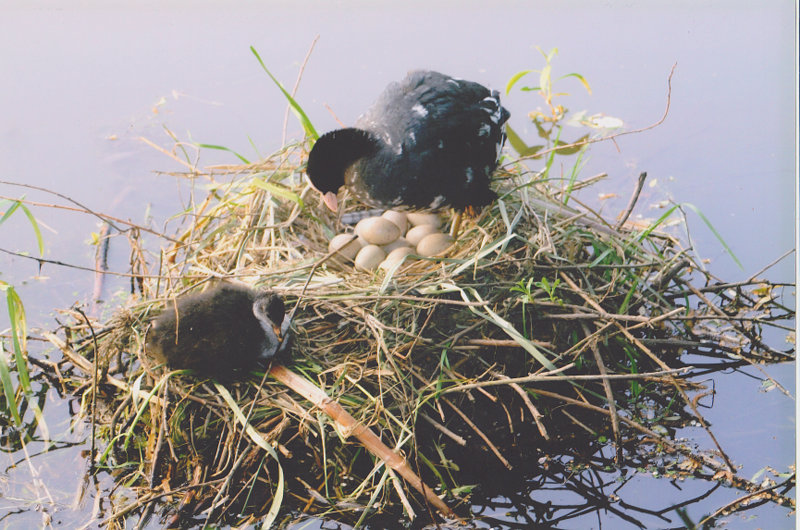 A coot with young coot and a lot of eggs in the nest